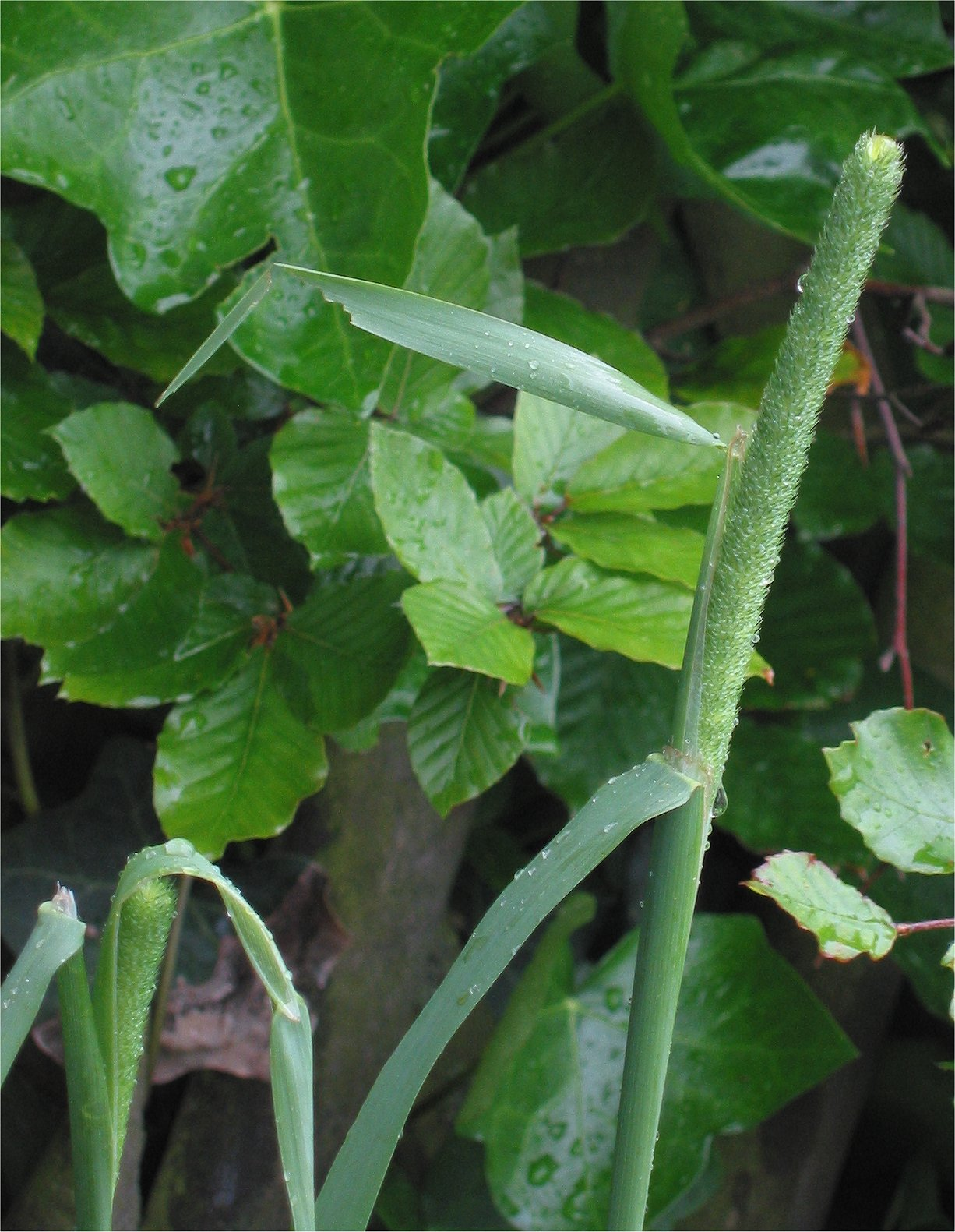 (Timoteegras) ear Phleum pratense subsp. pratense